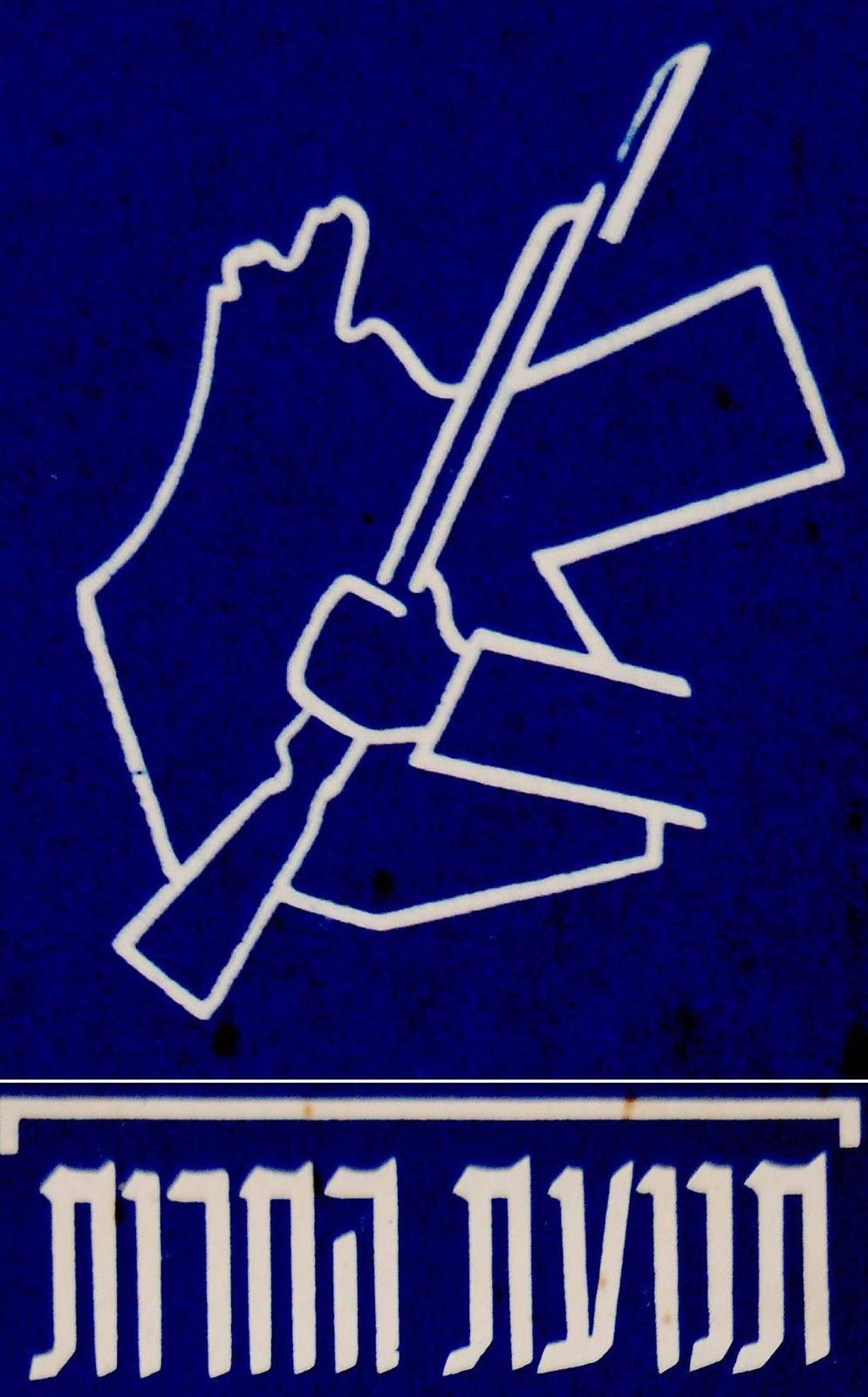 1956 Israel HERUT MEMBER CARD